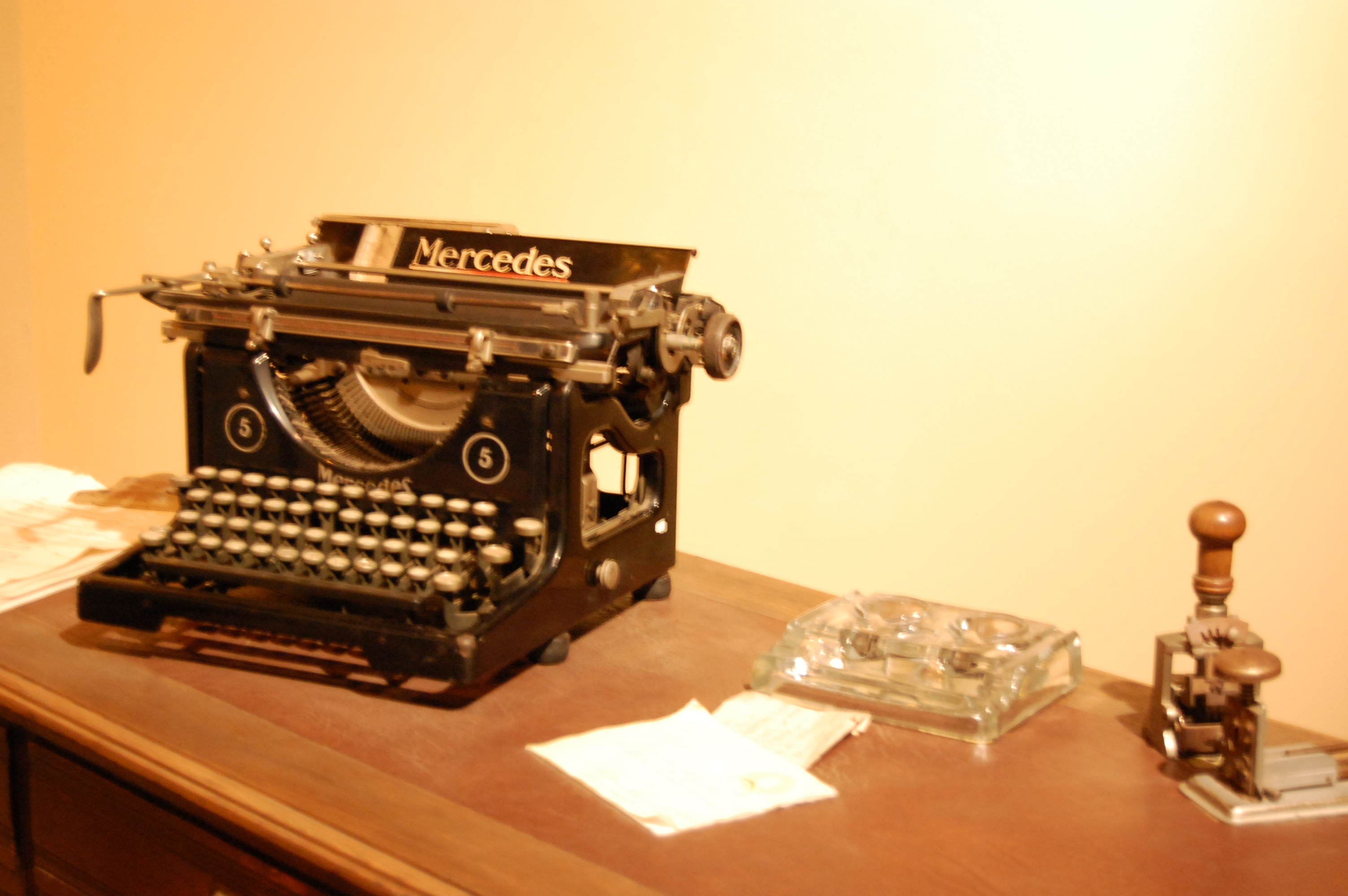 A Mercedes typewriter used by Francisco Pascasio Moreno. (La Plata Museum, Argentina.)